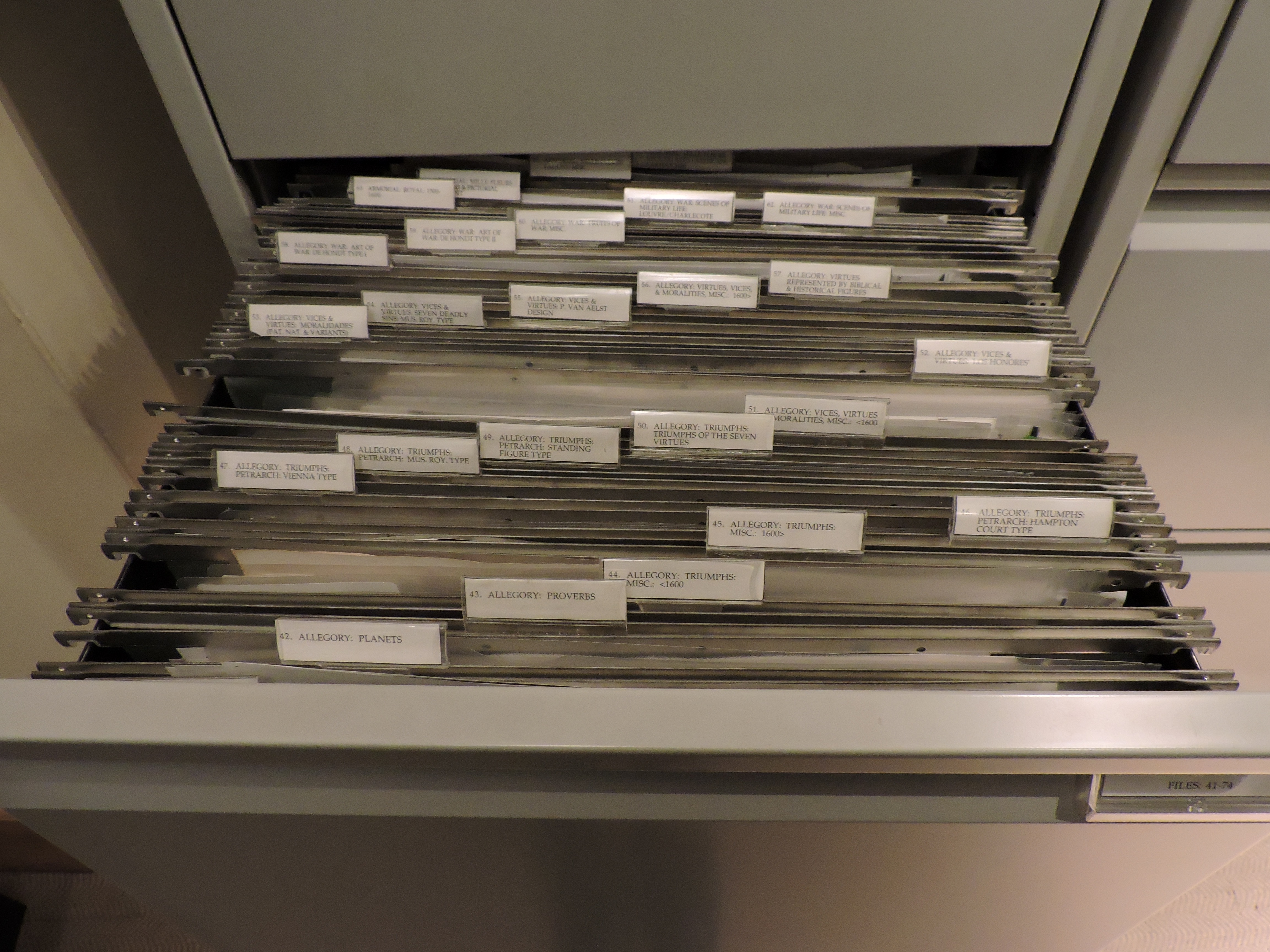 Filing cabinet drawer containing subject category "Allegory".